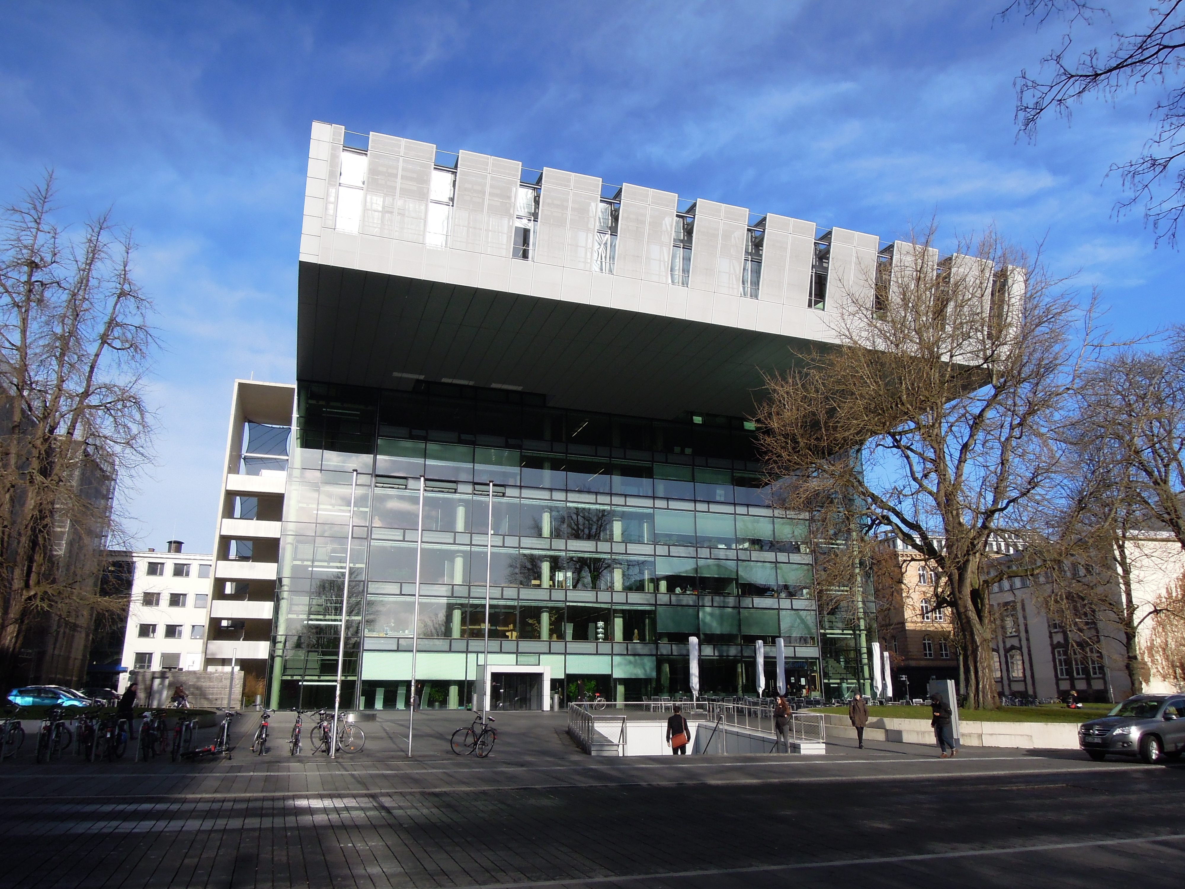 Super C, the RWTH Aachen service center built in 2008, at daylight.